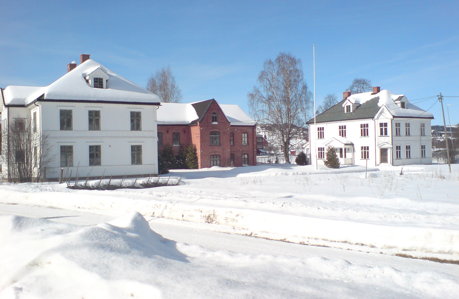 Roa Evangeliesenter - the first buildings used by Evangeliesenteret. Stiftelsen Pinsevennenes Evangeliesenter